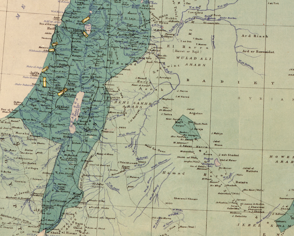 Palestine and Transjordan in Maunsell's map, Pre-World War I British Ethnographical Map of eastern Turkey in Asia, Syria and western Persia